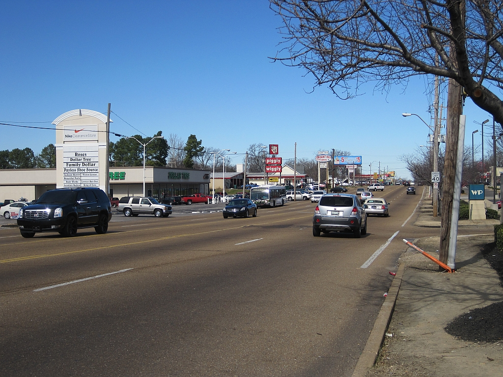 Elvis Presley Boulevard in the Whitehaven District of Memphis, Tennessee